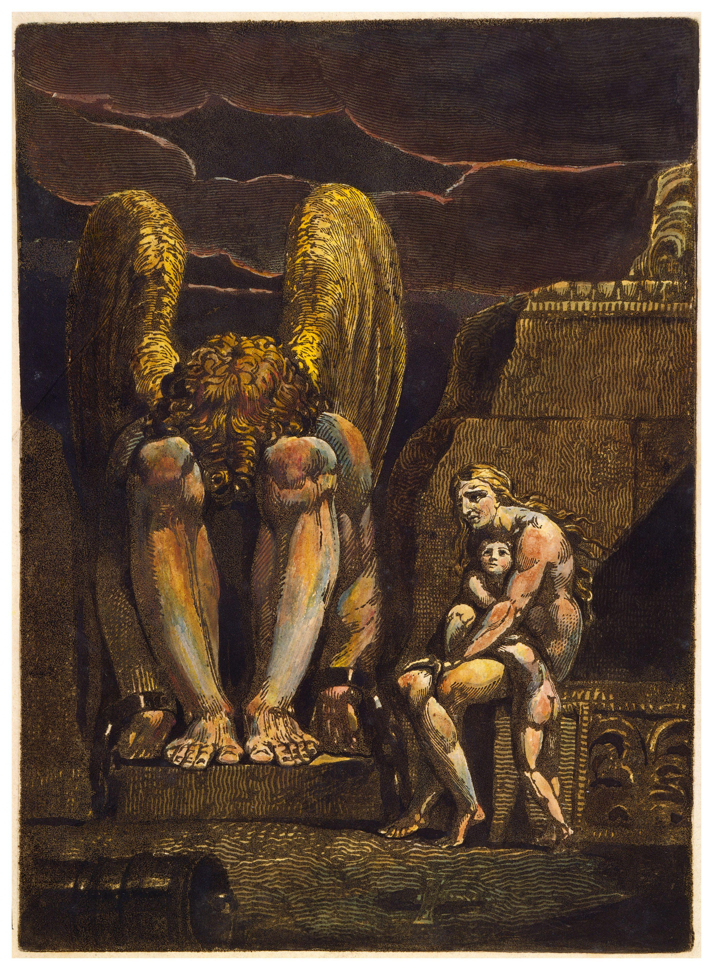 Plate from America a Prophecy, copy A, in the collection of the Morgan Library. Relief etching with hand coloring and white line etching. Leaf size approx. 32 x 24 cm